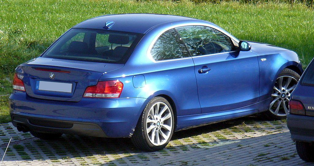 BMW 1er Coupé before official sales start in Germany